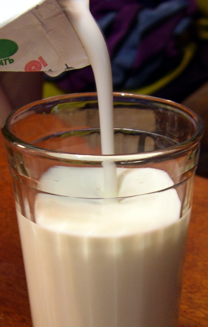 Kefir is pouring into the glass